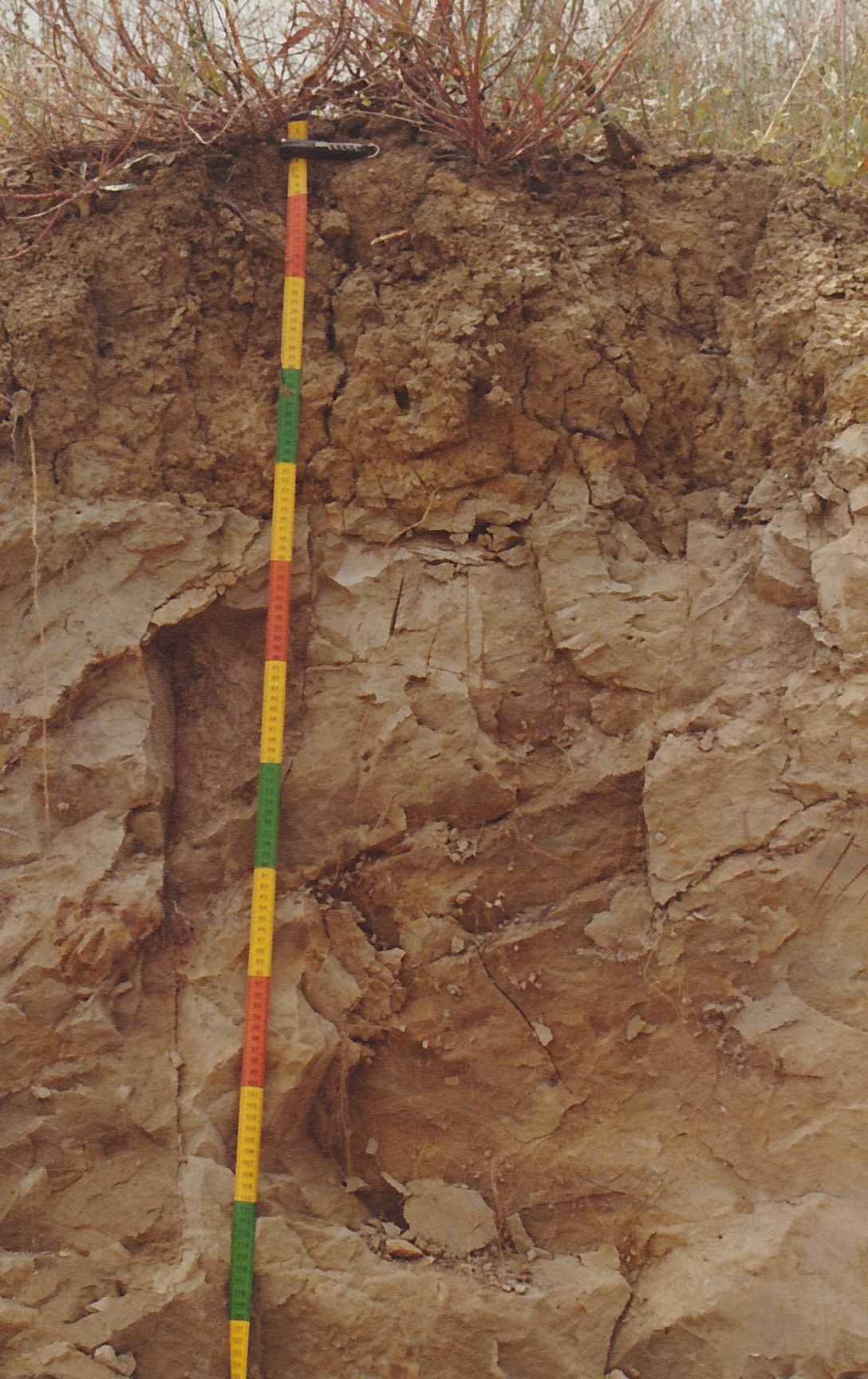 Eutric Cambisol (FAO), Typic Xerochrept (USDA) in slope deposits overlying lacustrine clay near Figline V.no, FI, Italy, Ah-Bw-2C profile